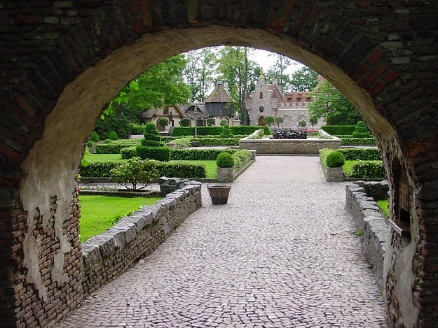 Heralds Square (Herautenplein) in the themepark Efteling. This beautiful square, surrounded by the trees of the fairy tale forest, was one of the first 'attractions' the park offered in 1952. Major additions (including the two buildings seen in the background of this image) were done under Henny Knoet in 1999.